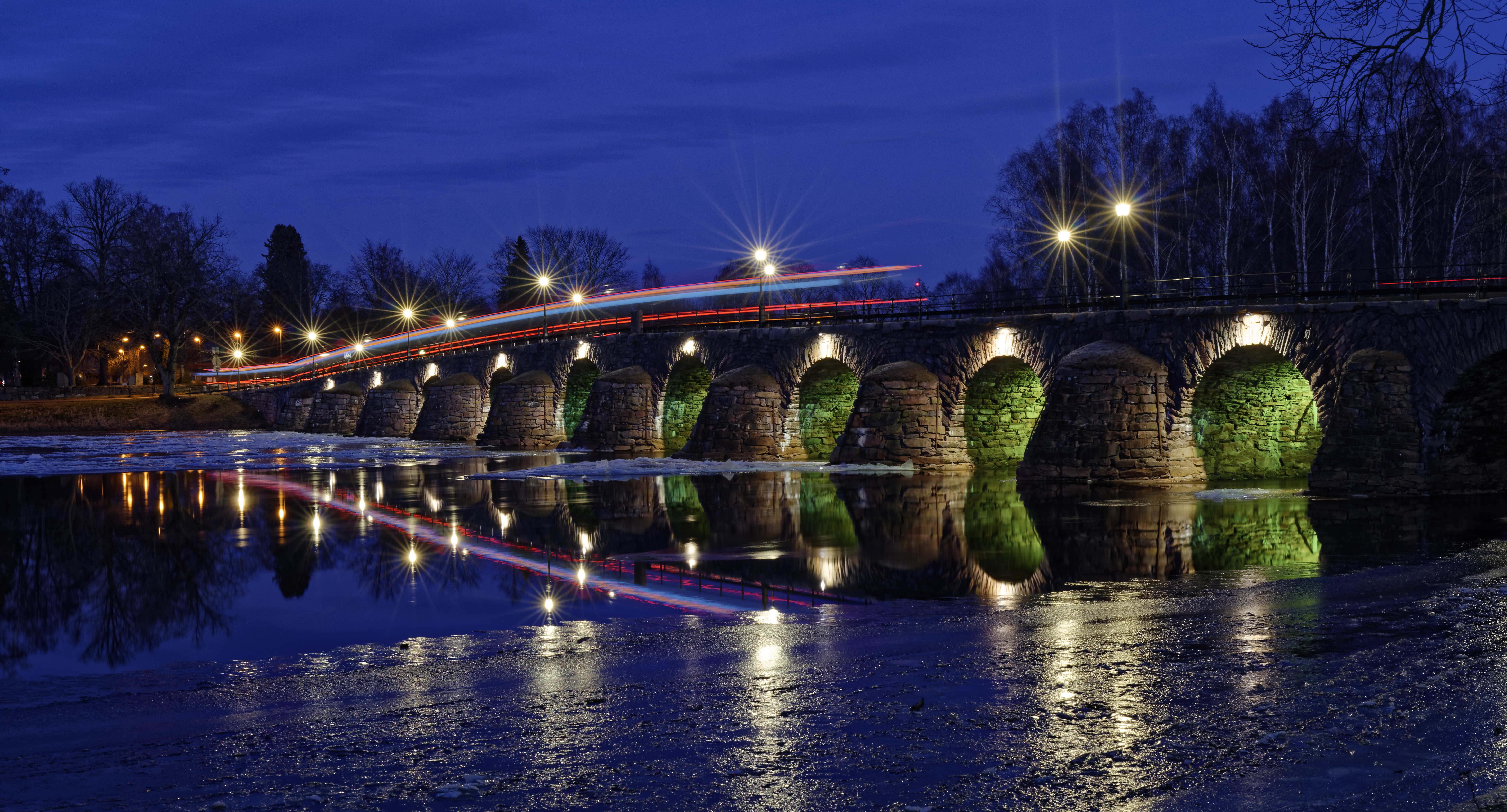 East bridge, a stone bridge in Karlstad, Sweden, built in 1761-1811.